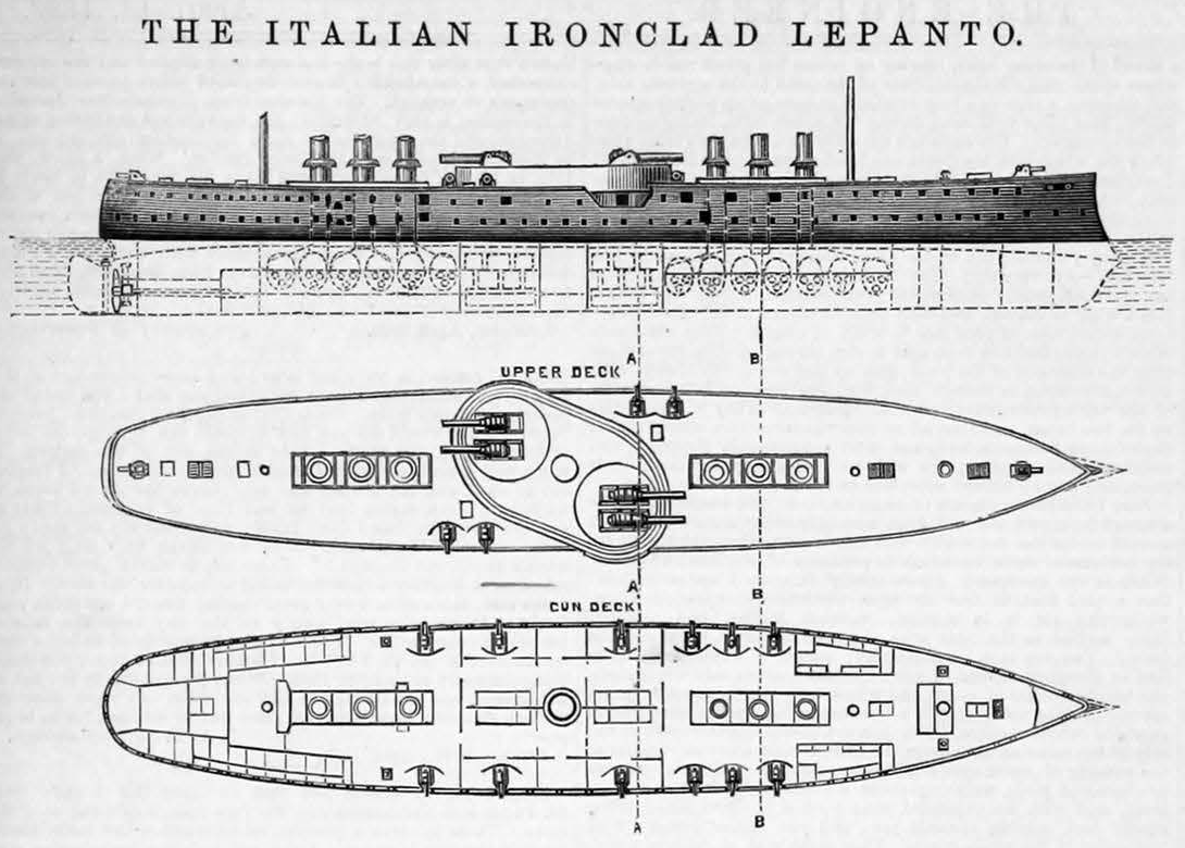 The periodical The Engineer April 13, 1883, had an article about the Italian battleship Lepanto on page 281, accompanied by this illustration.